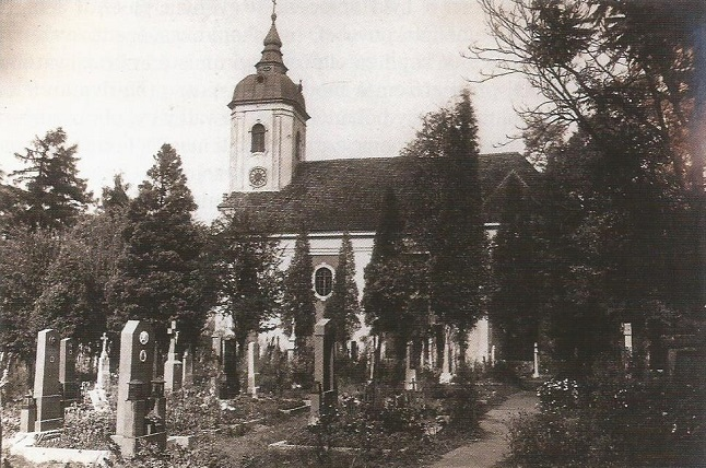 Historical picture of church in Dolní Lutyně